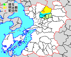 The location of Kikuchi_District in Kumamoto Prefectuur, Japan